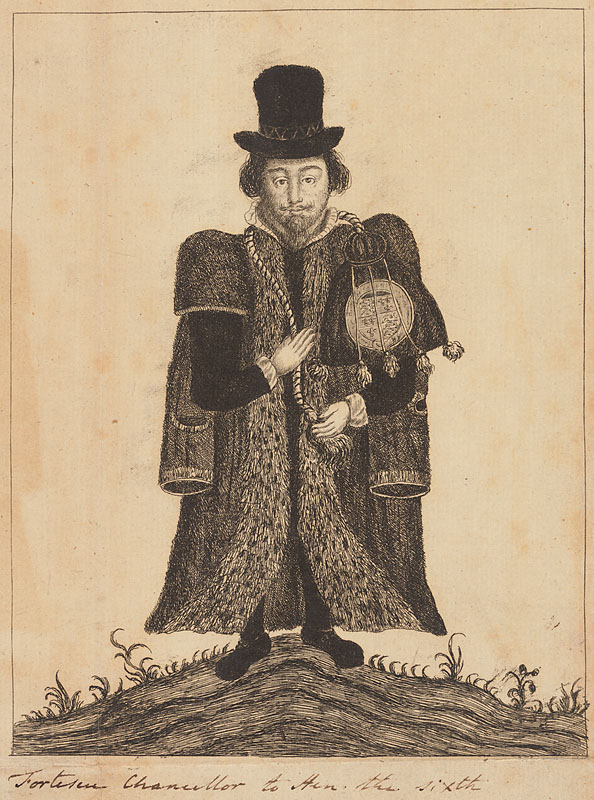 A drawing of Sir John Fortescue (c. 1394 – c. 1480), Lord Chief Justice of England and Wales, in anachronistic 17th-century dress with an oversized Great Seal of England bearing the Royal Arms and hanging from a cord draped against the left side of his chest.